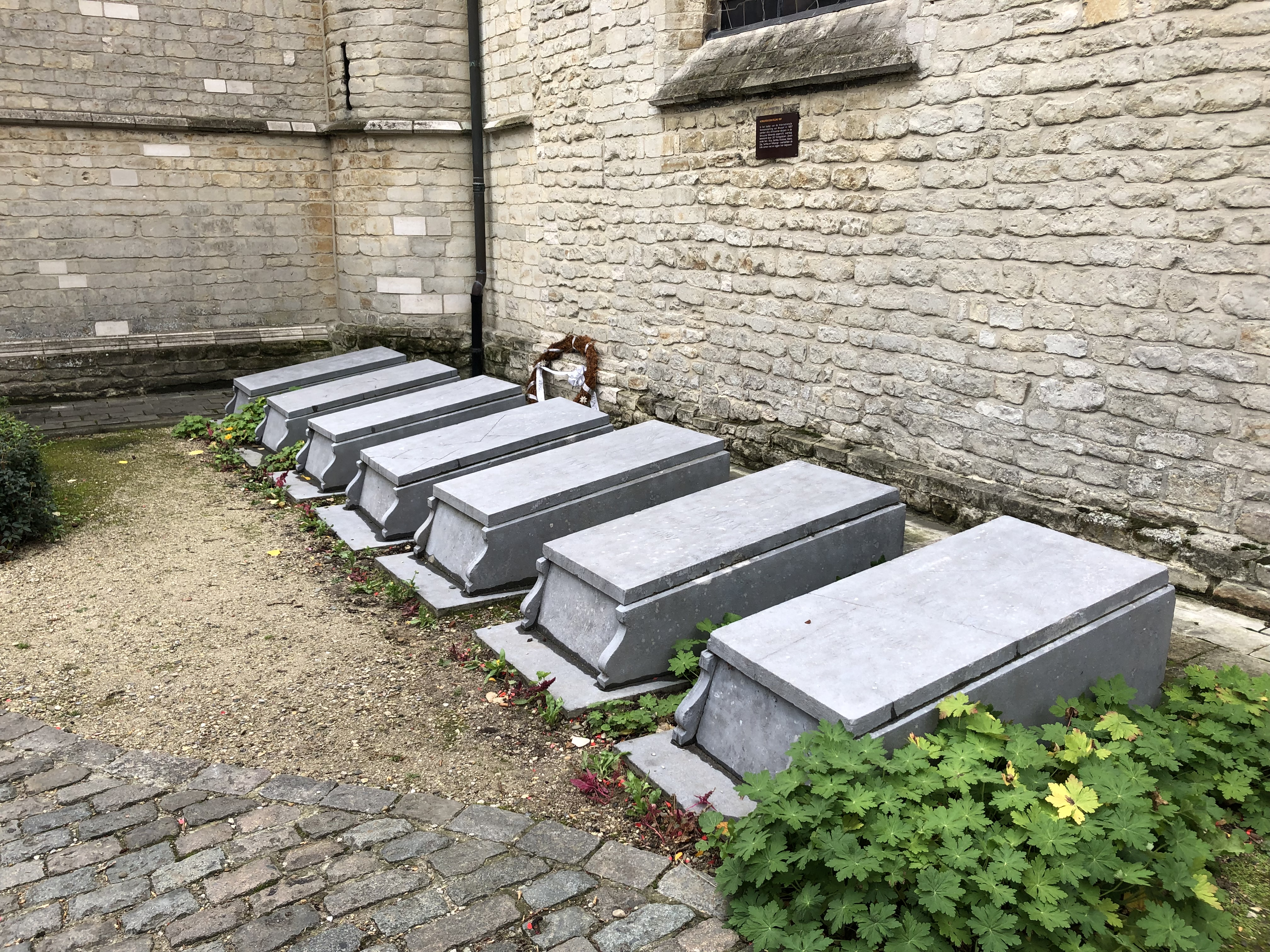 Graves of seven Congolese civilians who died in 1897 during the World Exhibition in Tervuren. They were buried next to the church of the Sint-Jan Evangelistkerk in Tervuren, Belgium.